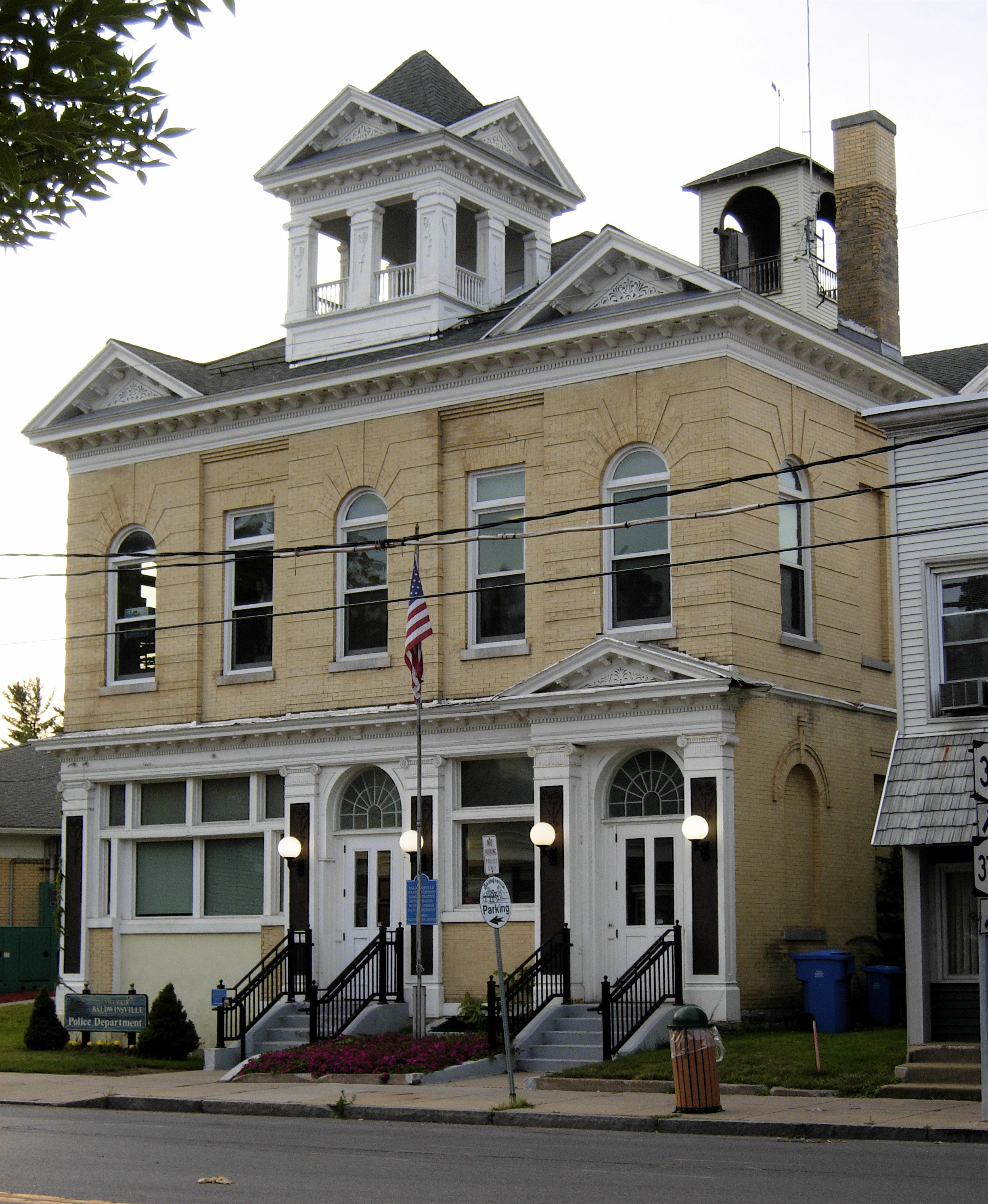 Baldwinsville Police Station, formerly Baldwinsville City Hall